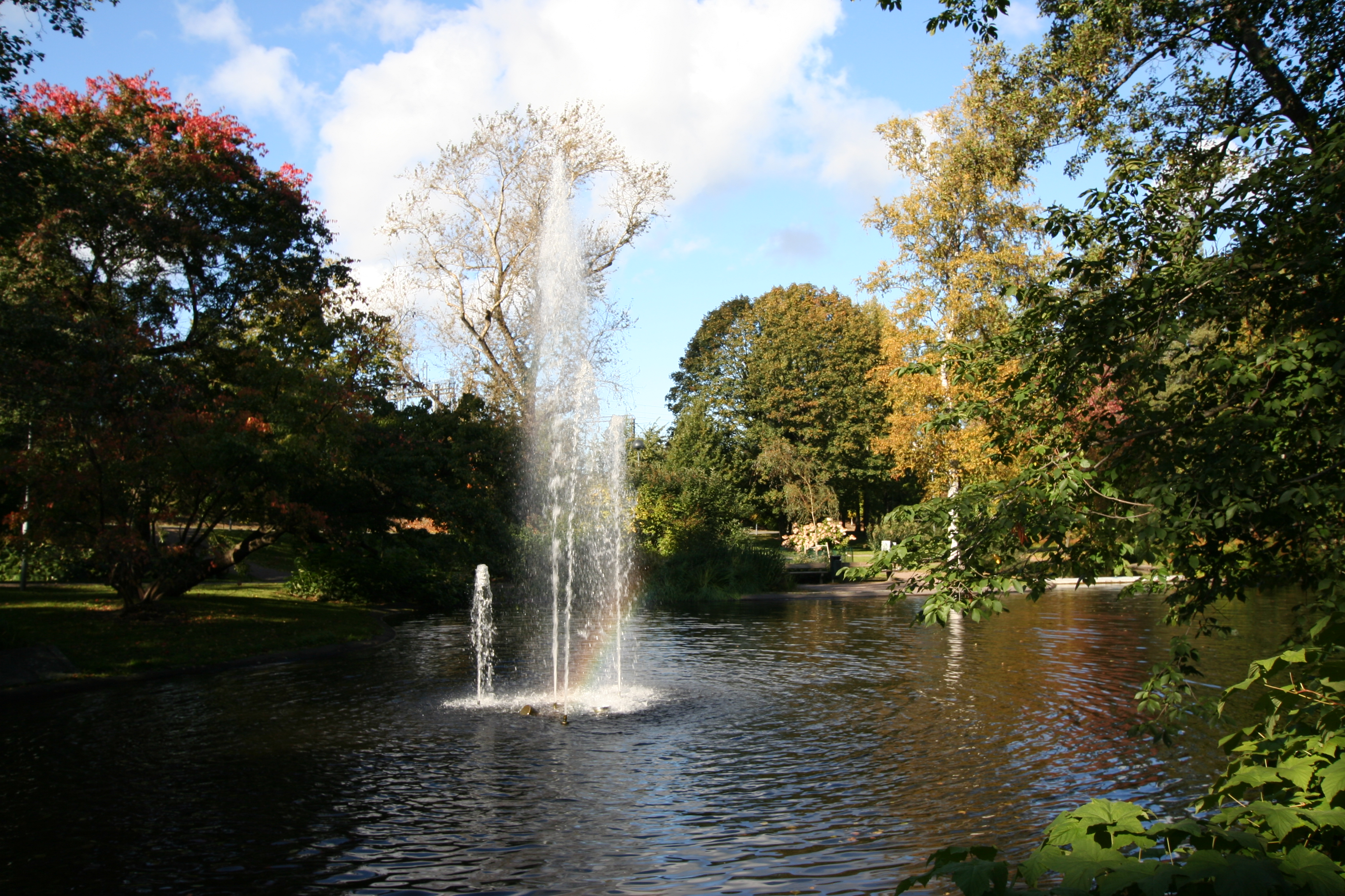 Fountain in Alppipuisto, Helsinki